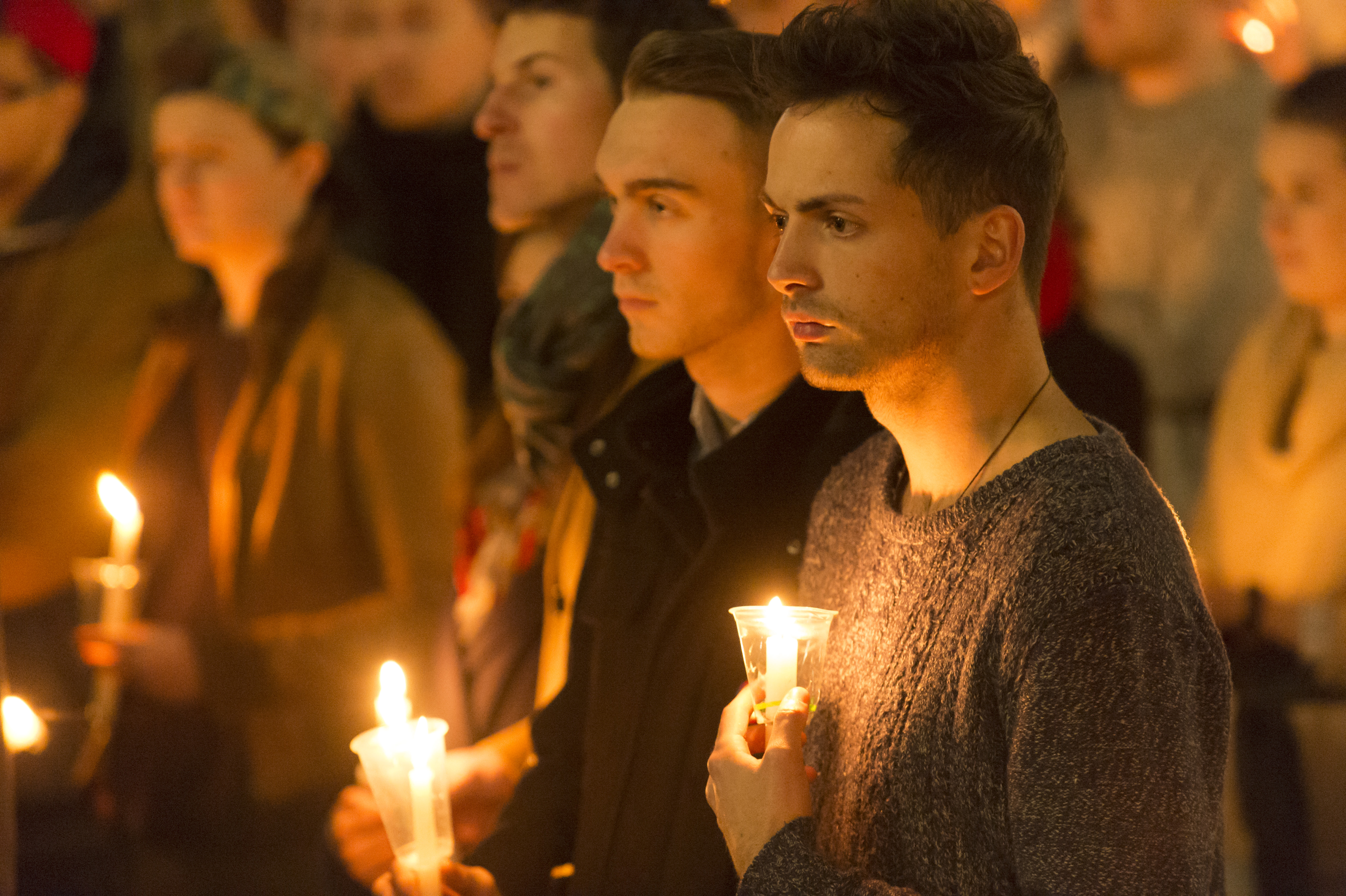 Vigil in support of the victims of the 2016 Orlando nightclub shooting, Wellington, New Zaeland